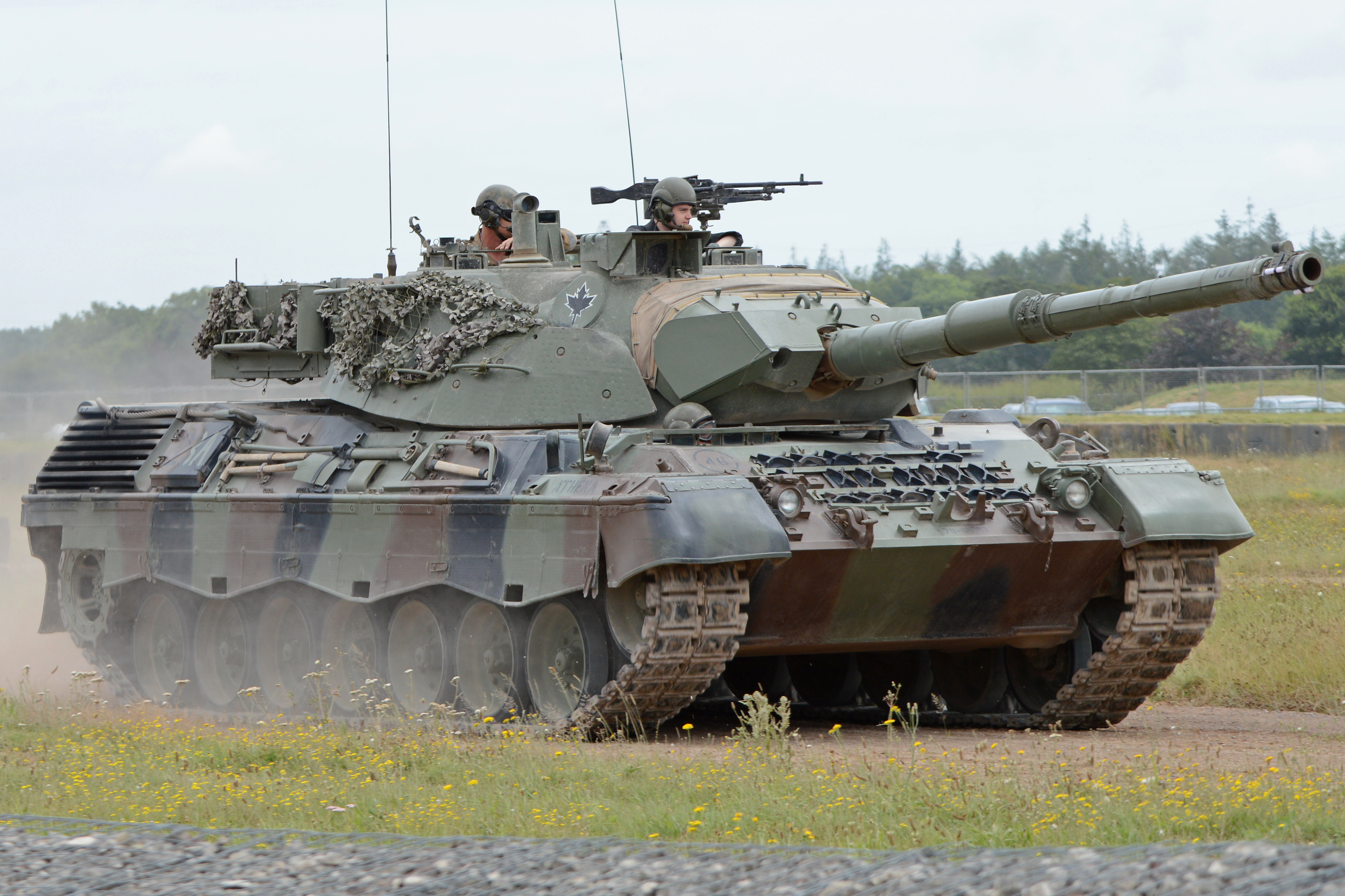 Official designation:- Leopard 1A5 Main Battle Tank. Chassis serial No 18016. Turret serial No 0020A. Canadian Army registration 78-85137. One of two donated to the museum directly from the Canadian Army. Seen during a demonstration at The Tank Museum, Bovington, Dorset, UK. 26th July 2016